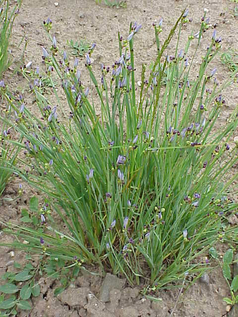 Species: Sisyrinchium montanum Family: Iridaceae Image No. 2